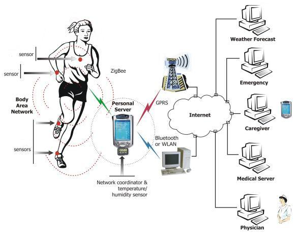 Body Area Network